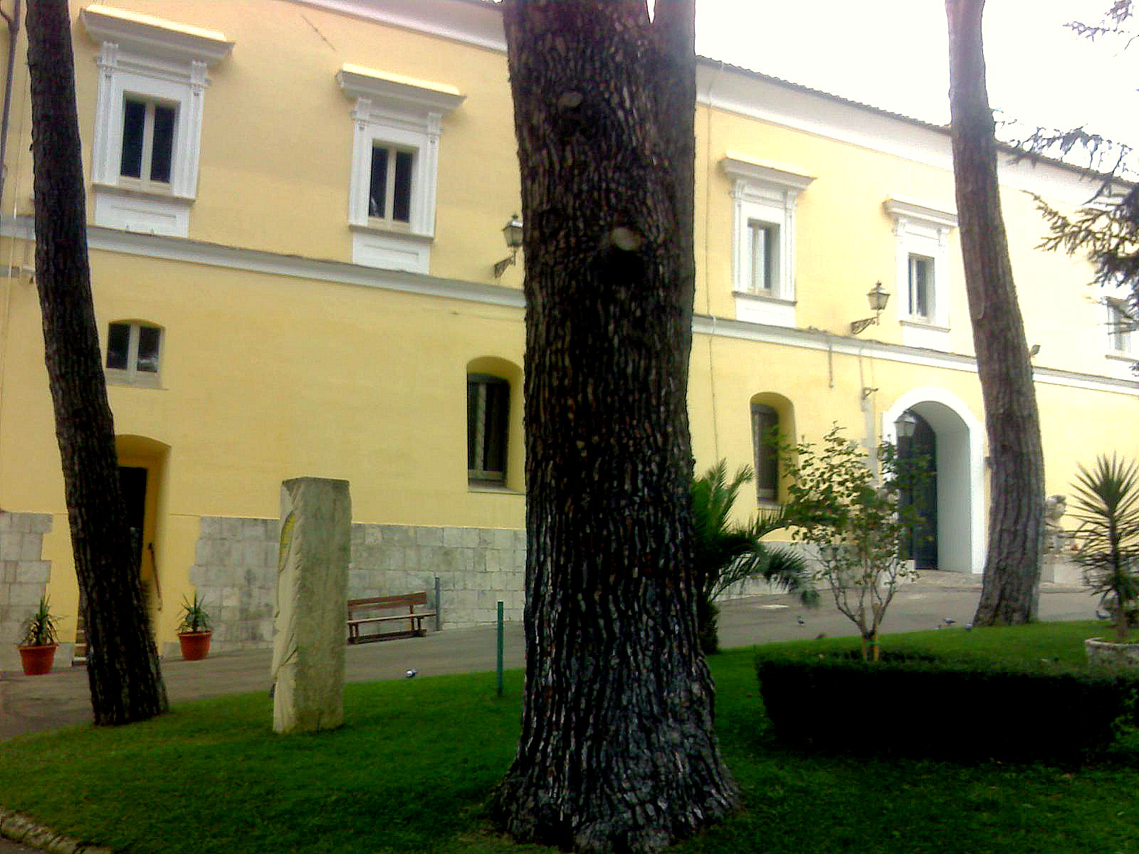 Rocca dei Rettori (also known as Castle of Manfredi), a castle in Benevento, southern Italy. It currently houses the Museum of the Samnium.